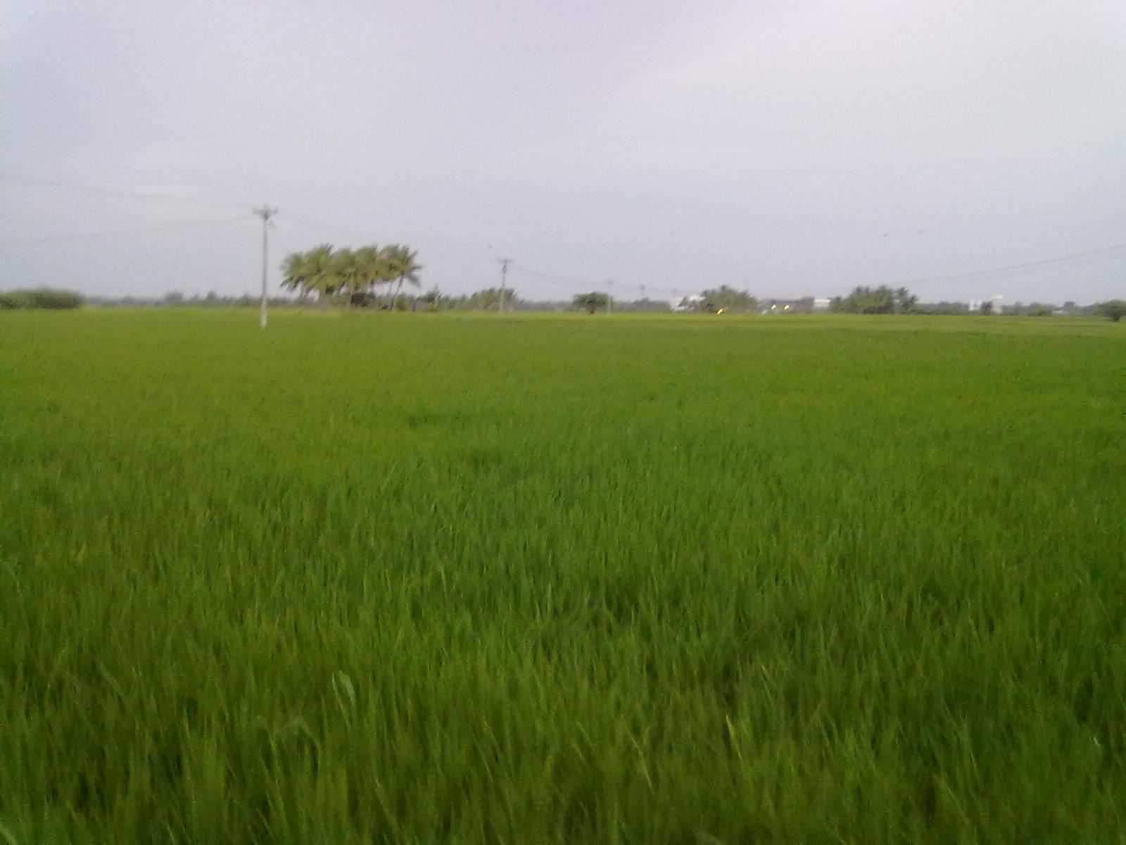 This is a Agriculture farm in Regunathapuram